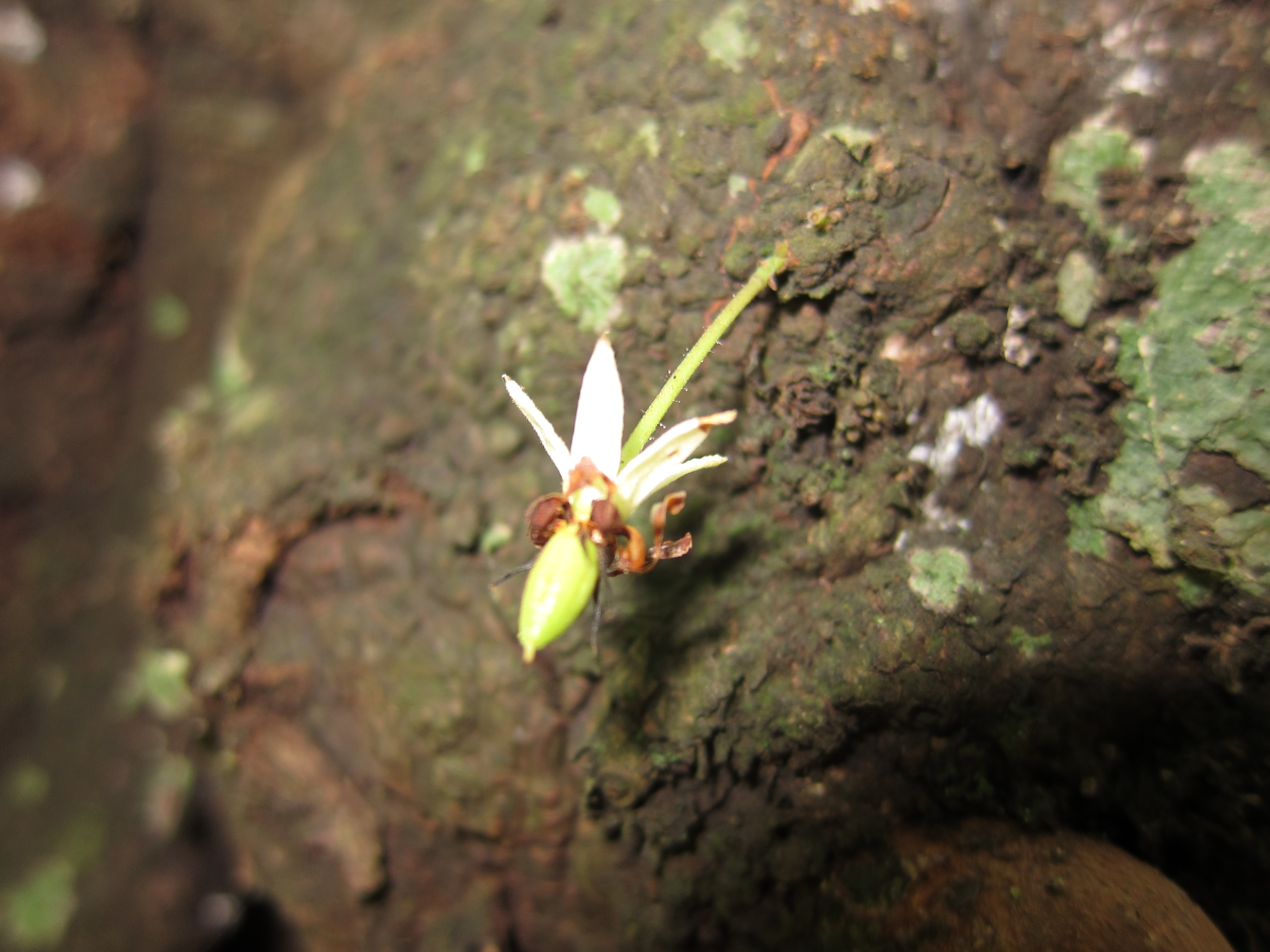 Coco Flower